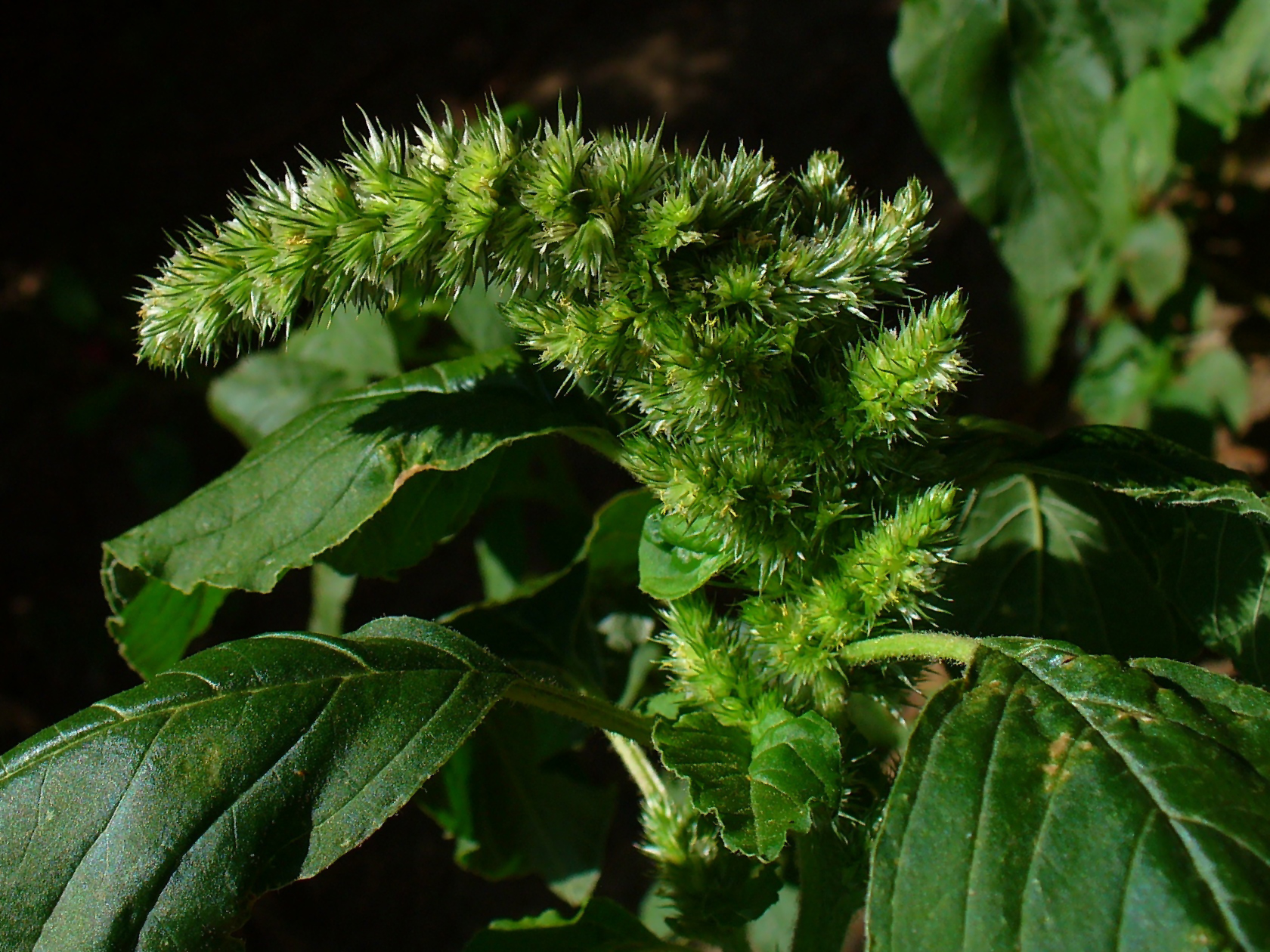 Amaranthus hybridus, Amaranthaceae, Smooth Amaranth, Smooth Pigweed, Red Amaranth, Slim Amaranth, inflorescence. Karlsruhe, Germany.